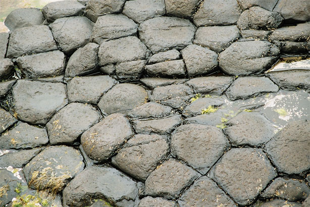 Giant's Causeway, closeup